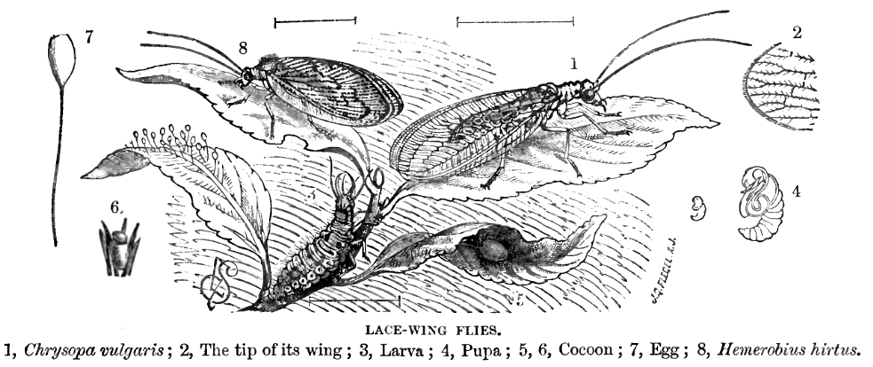 Lacewing life history (version with yellow cast removed 2008-05-15)